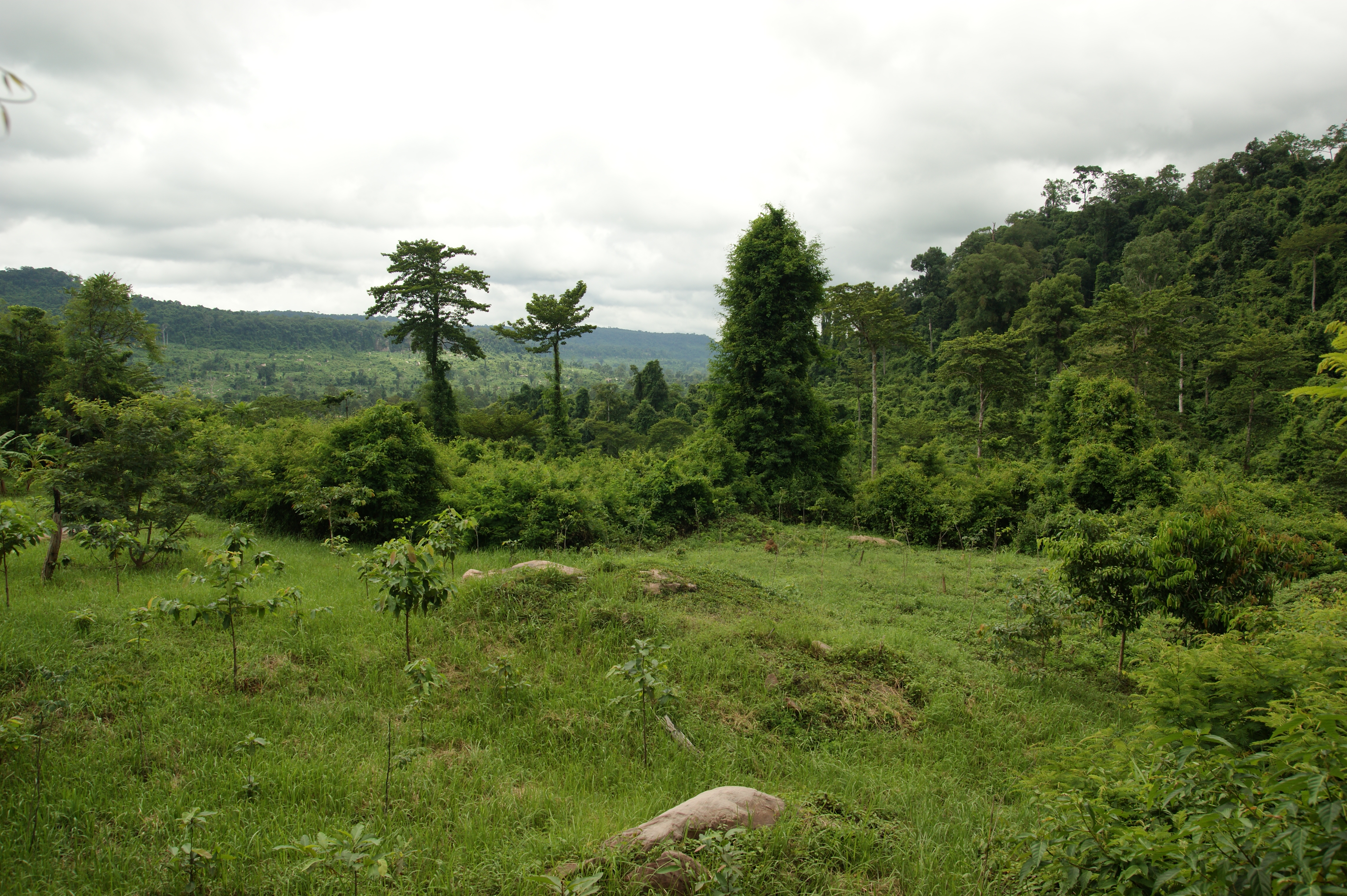 Siem Reap, Angkor, Kbal Spean